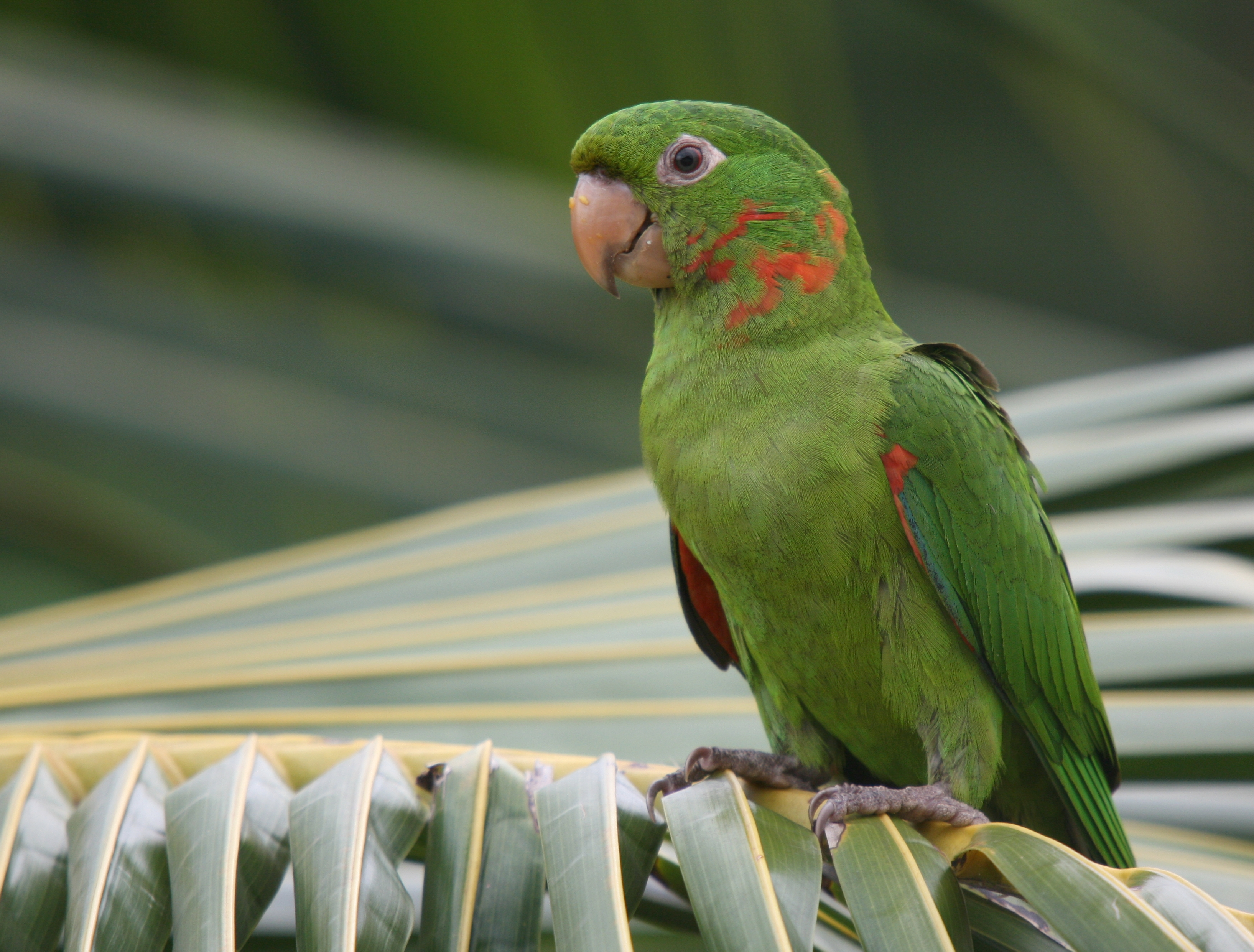 White-eyed Parakeet (also known as White-eyed Conure) in Goiânia, Goiás, Brazil.